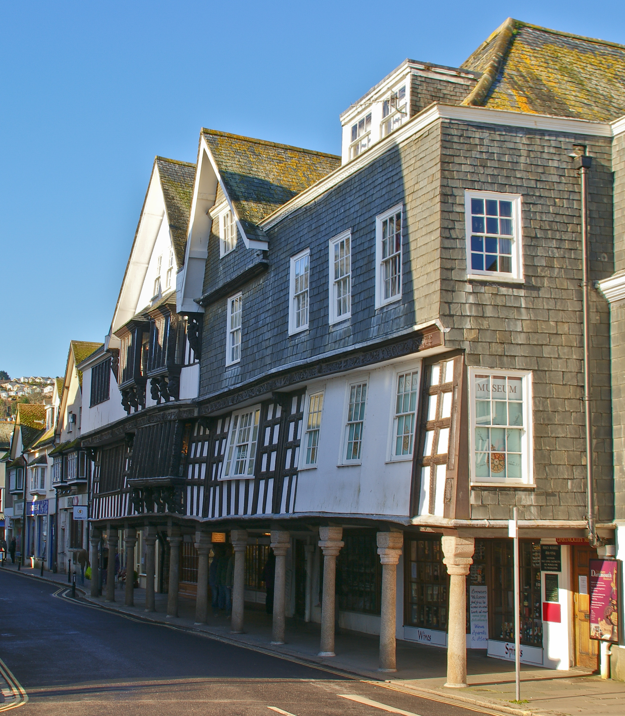 The Butterwalk at Dartmouth in Devon, UK. It is a grade 1 listed building built between 1635 & 1640. At the right hand side of the picture is the entrance to the Dartmouth Museum which occupies a portion of the first floor.